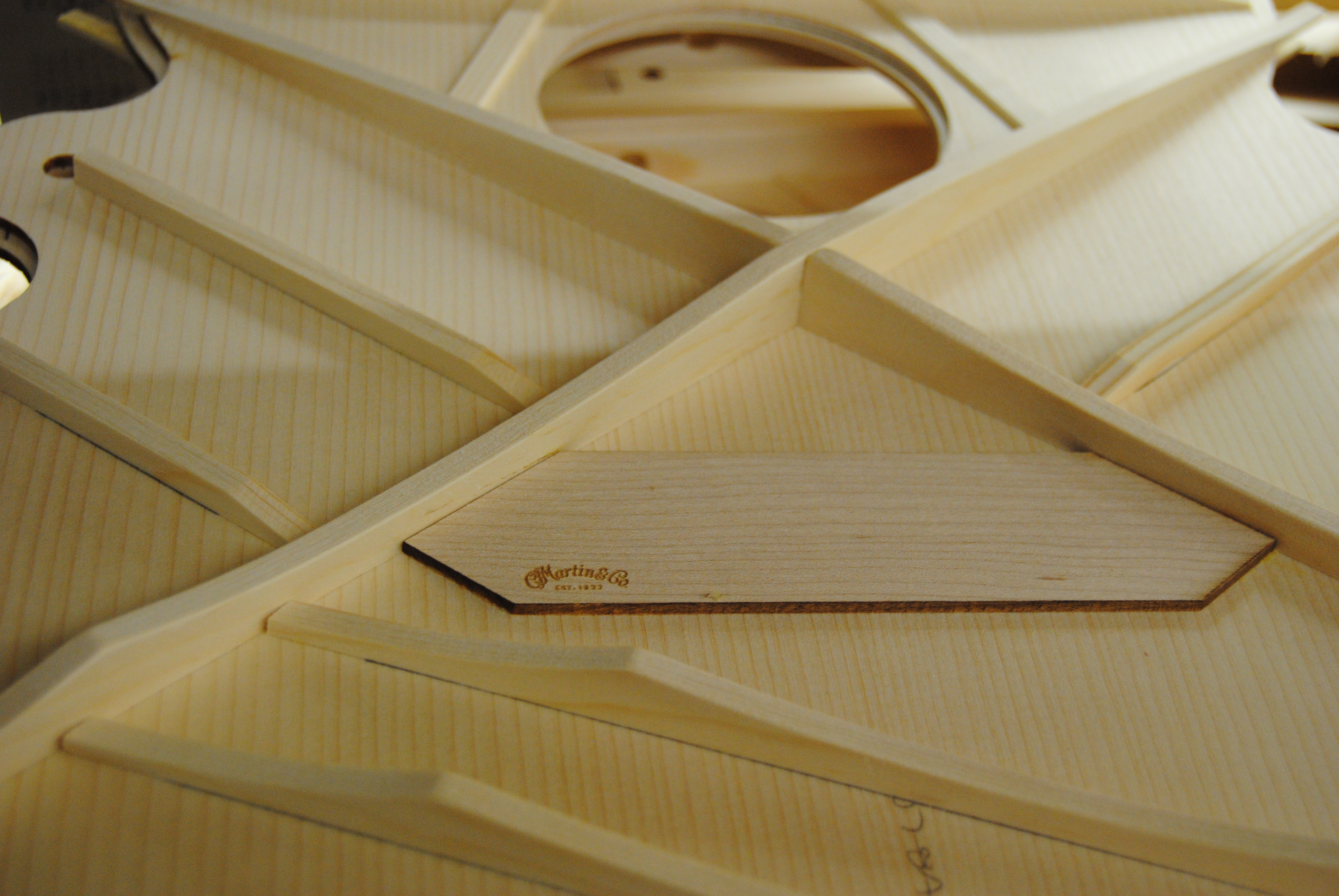 Photos taken at The Martin Guitar Factory in Nazareth, Pa. during the annual Owner's Club Day. Discover Lehigh Valley!